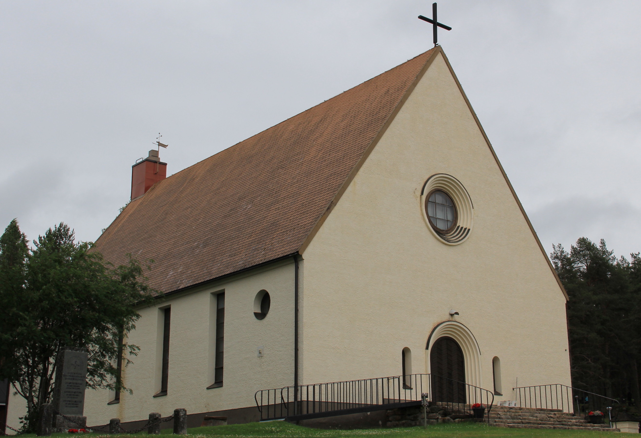 Ylitornio church, Ylitornio, Finland. - Church seen from northwest, main entrance.